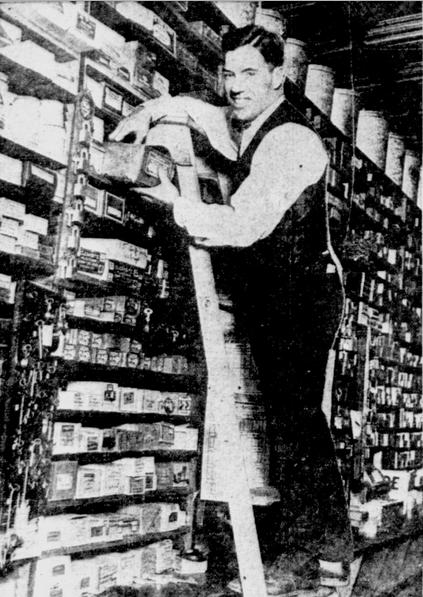 Professional baseball player Leo Dixon working in his father's hardware store during the off-season.